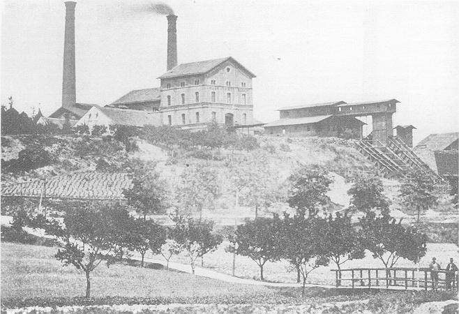 Julius Mine, Zastávka, Czech Republic